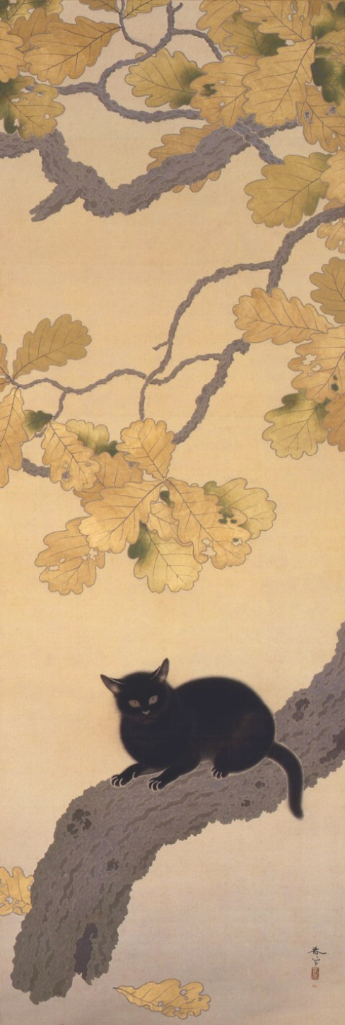 Black Cat (Kuroki Neko) by Hishida Shunso